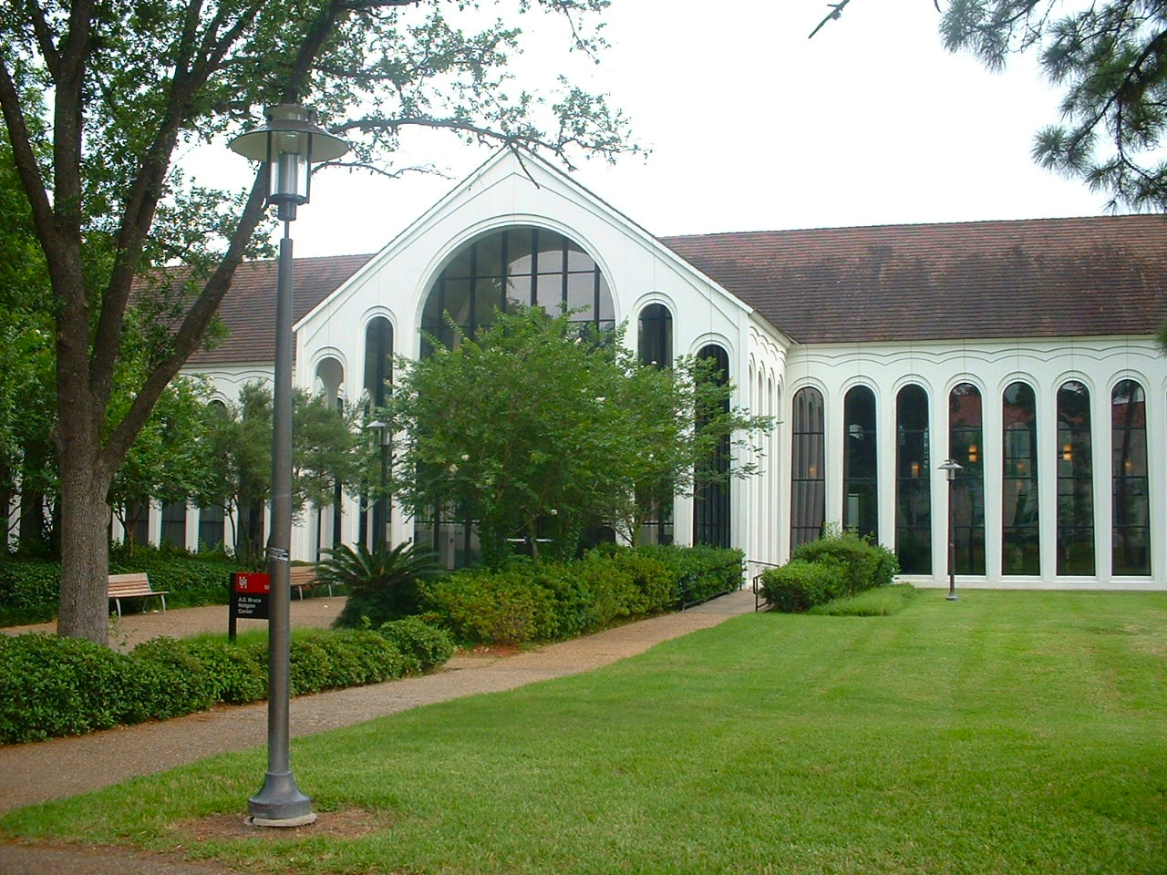 The A.D. Bruce Religion Center on the campus of the University of Houston. The Bruce Religion Center serves as a church, mosque, and synagogue for the university community. It is named after former university President A.D. Bruce.